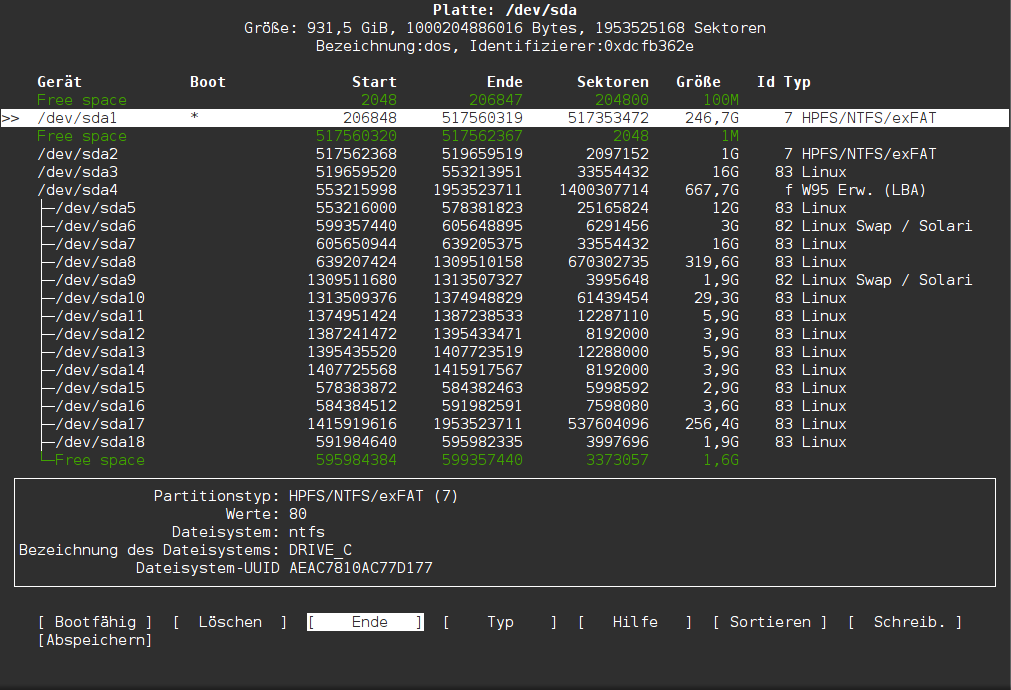 Screenshot of the partition editor "cfdisk" with german user interface.